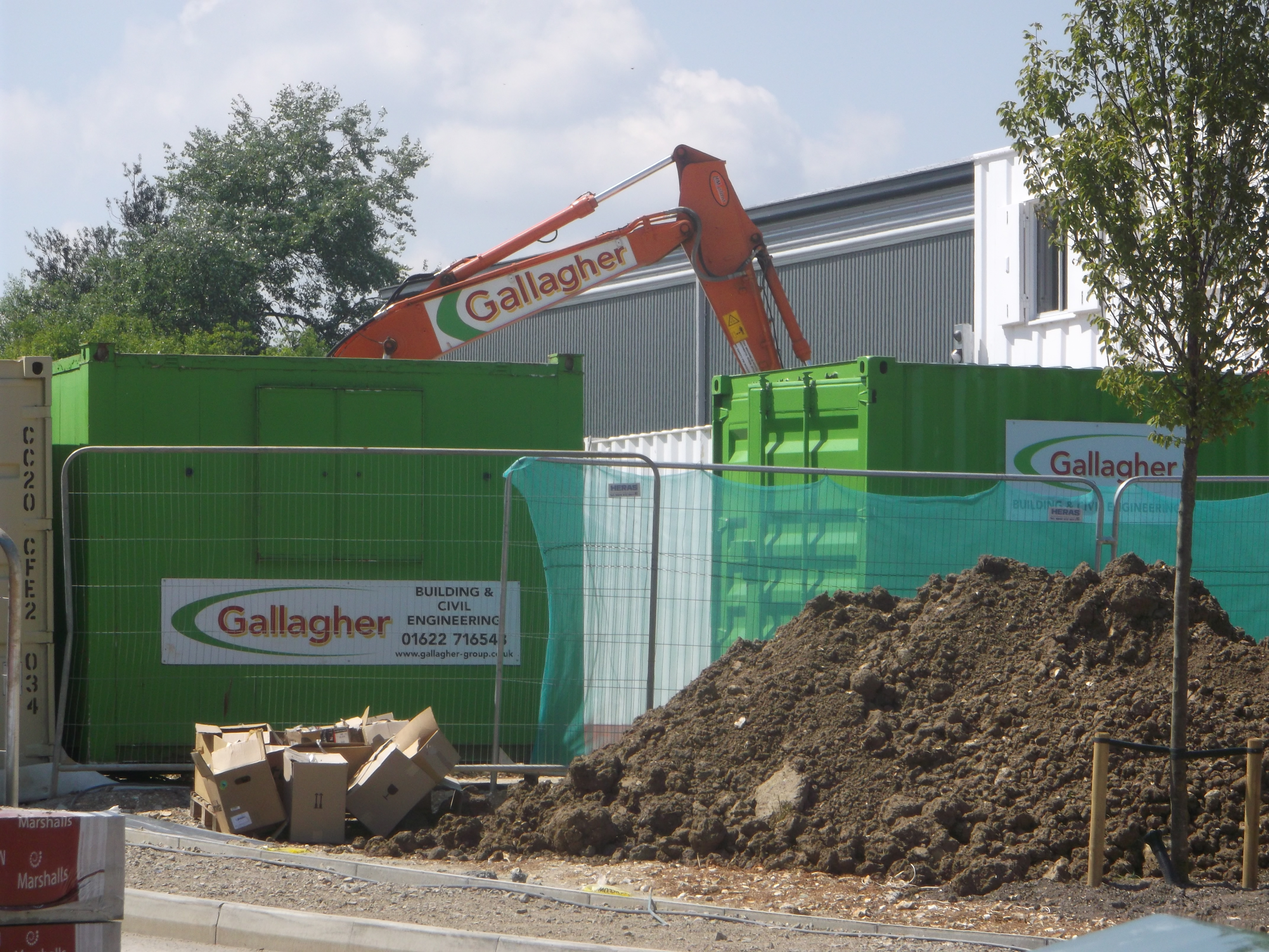 This photo is of 2 Gallagher site offices (with excavator in the background) on a building site in Gillingham, Kent.